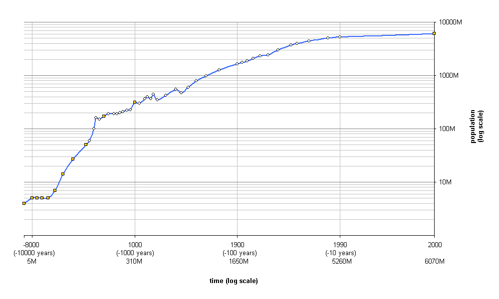 World population curve. Log scales are used for the population axis, to allow better reading of the data, and for the time axis, to compensate for the higher availability of census data for recent years.